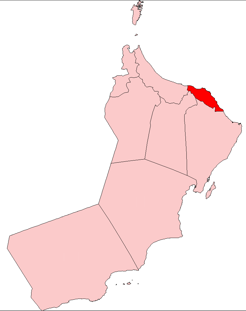 Map of Masqat Governorate, Oman